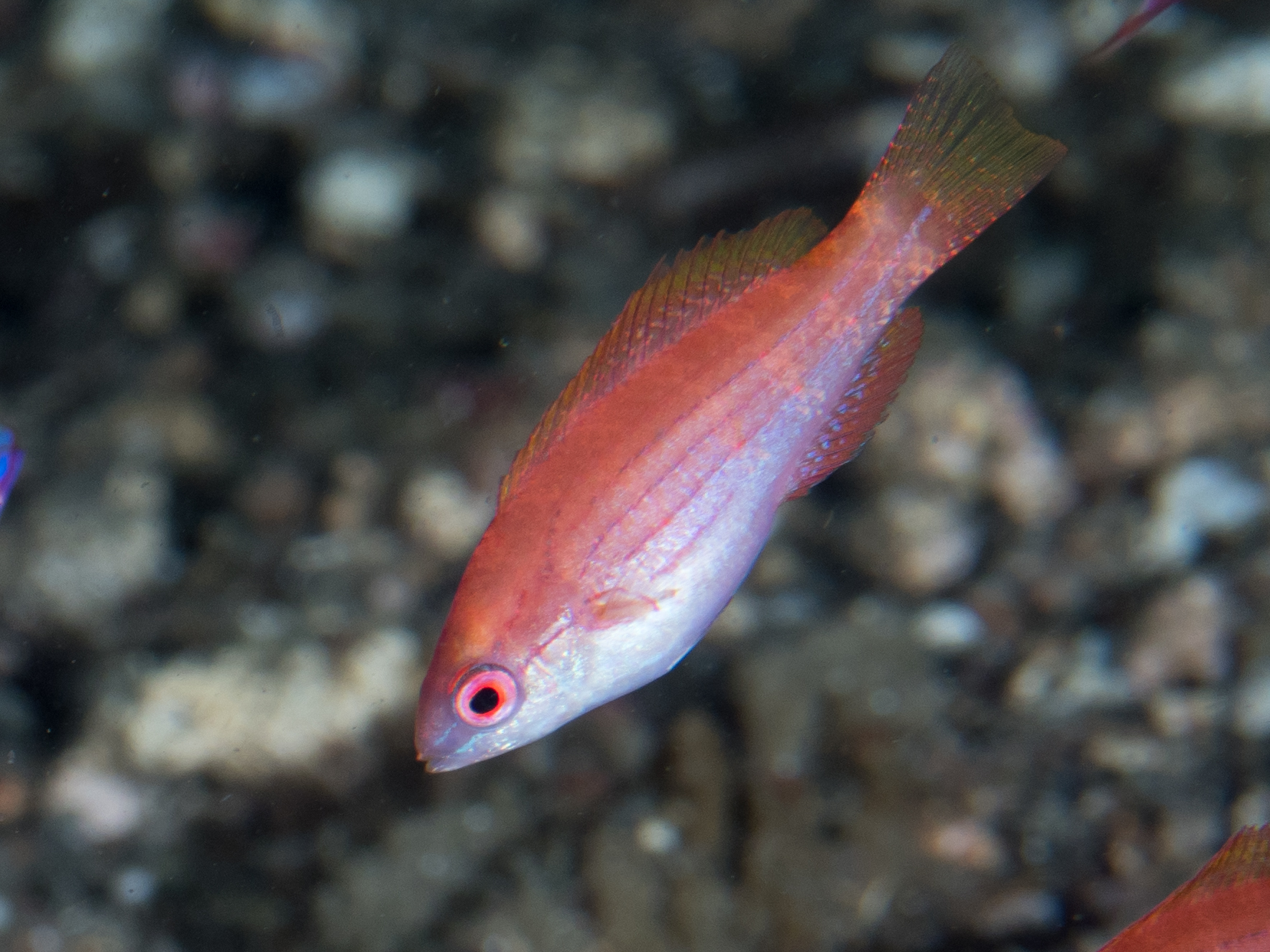 Lembeh, Indonesia - Blue flasherwrasse (Paracheilinus cyaneus)